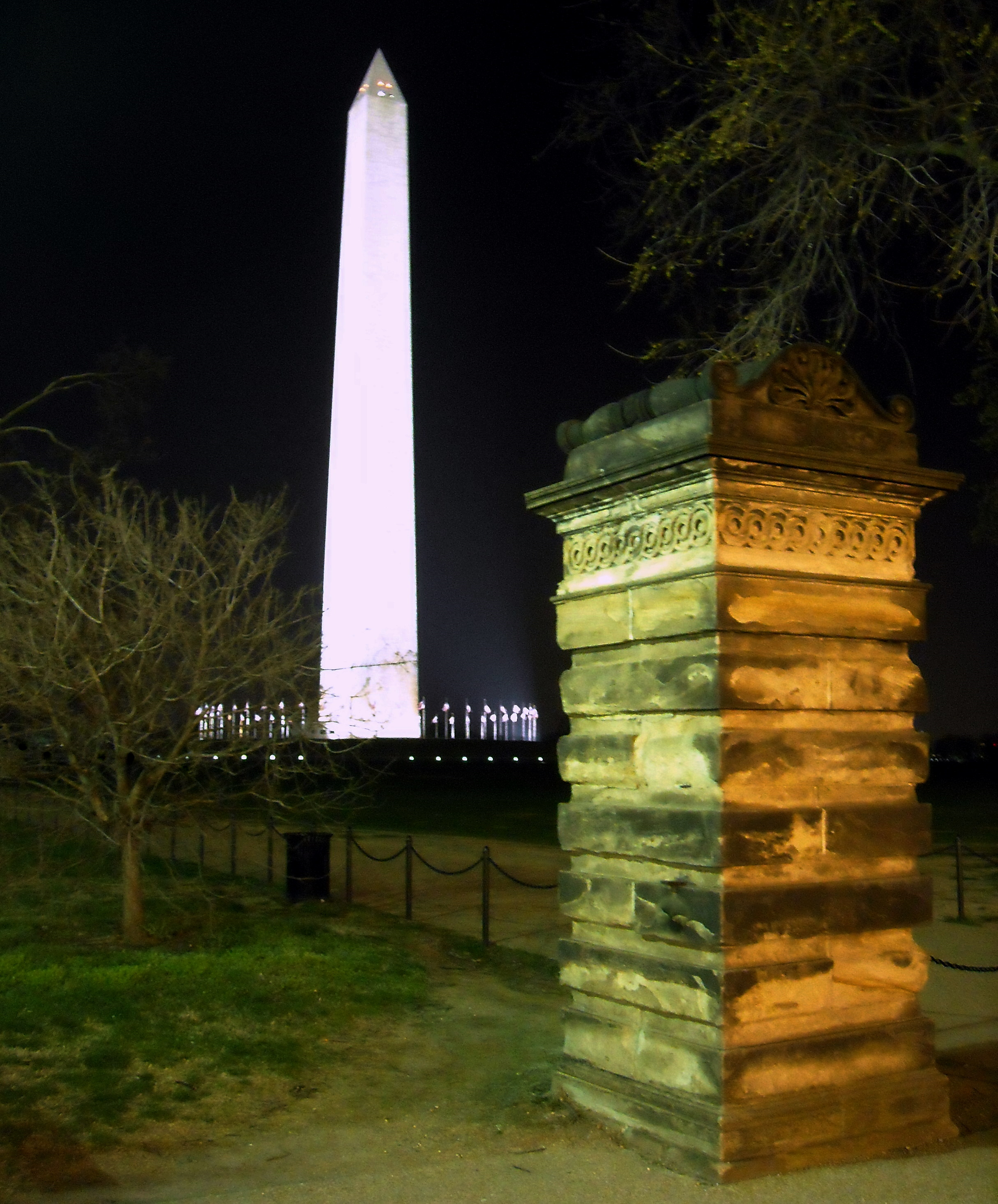 One of the Bulfinch Gateposts (also known as the U.S. Capitol Gateposts) located at 15th Street and Constitution Avenue, NW in Washington, D.C. It was designed by Charles Bulfinch in 1825 and is listed on the National Register of Historic Places. The Washington Monument is visible in the background.